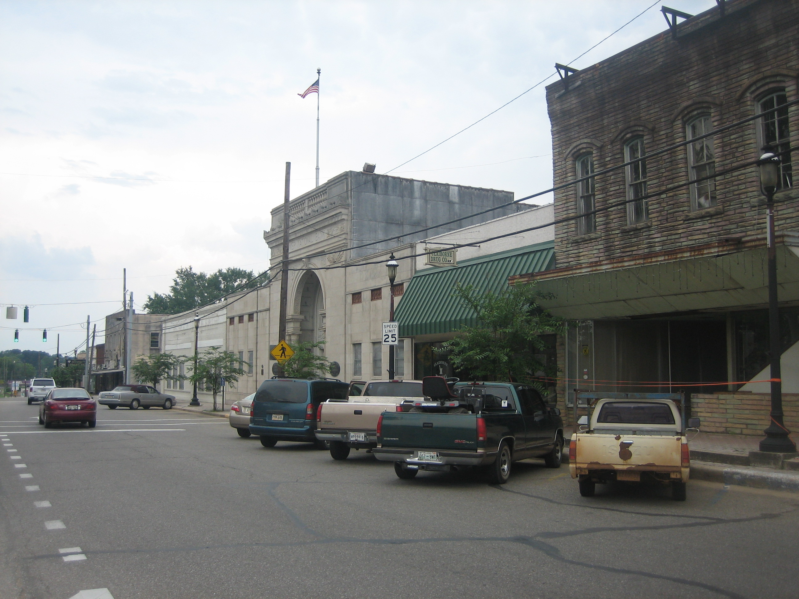 I took photo on May 26, 2009.Billy Hathorn (talk) 22:11, 29 May 2009 (UTC)